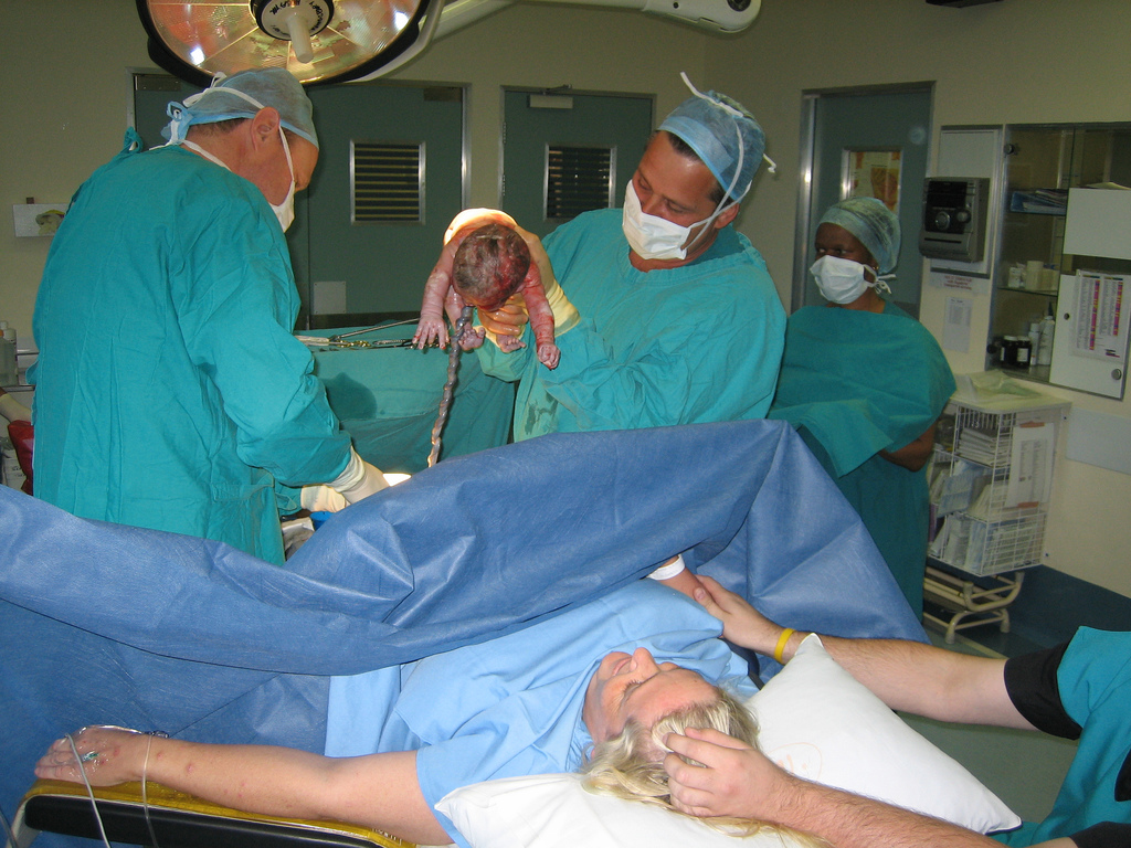 Mother is shown her newborn baby after a Caesarian.